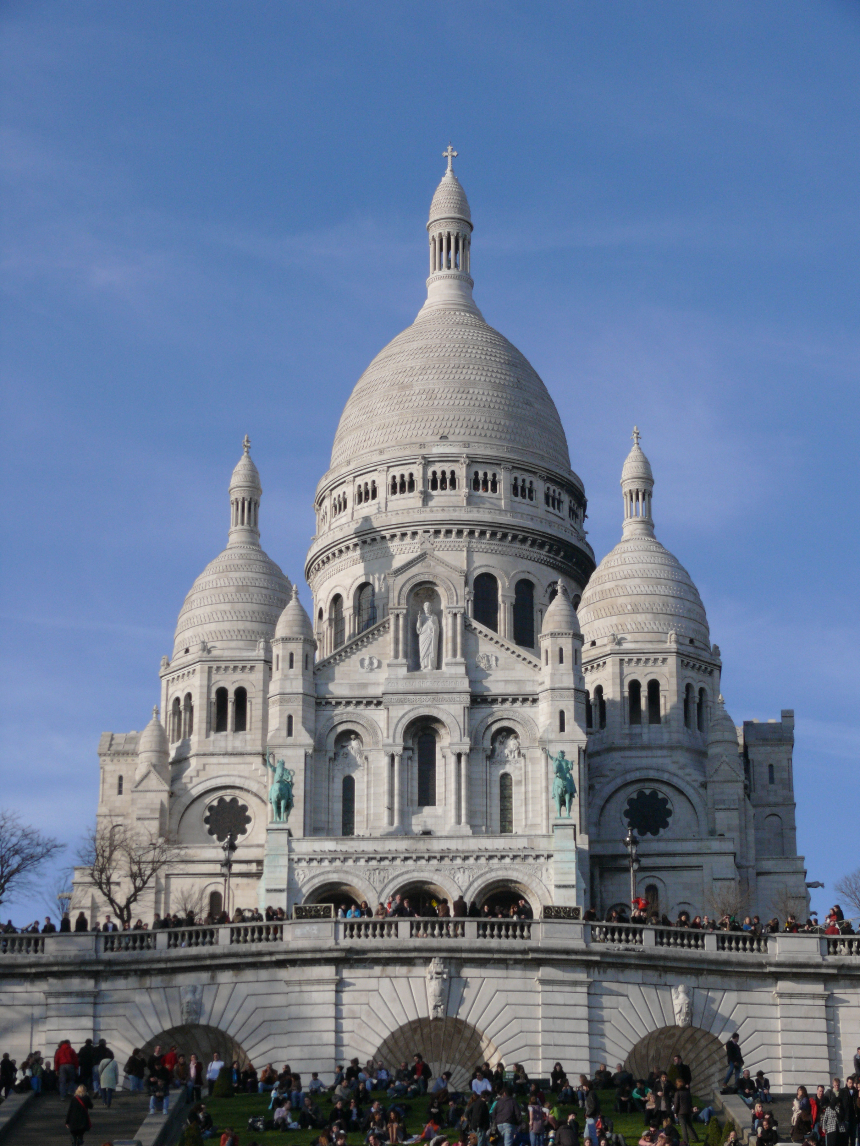 Sacré-Cœur Basilica, taken on a clear day in late February